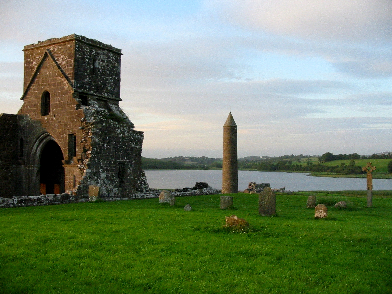 Oratory of Saint Molaise and Round tower on Devenish Island, Lough Erne, Northern Ireland.